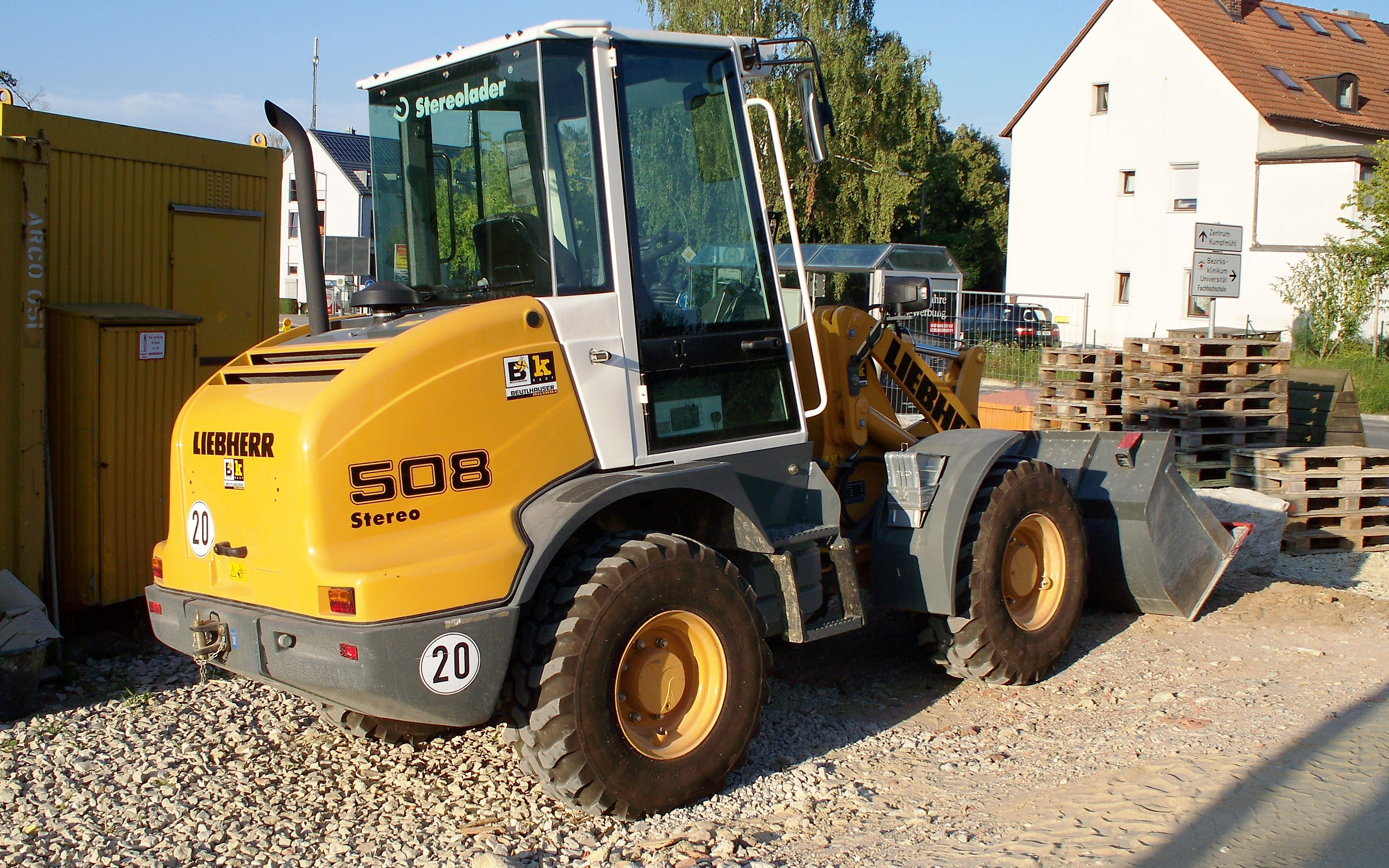 A Liebherr loader 508 Stereo.